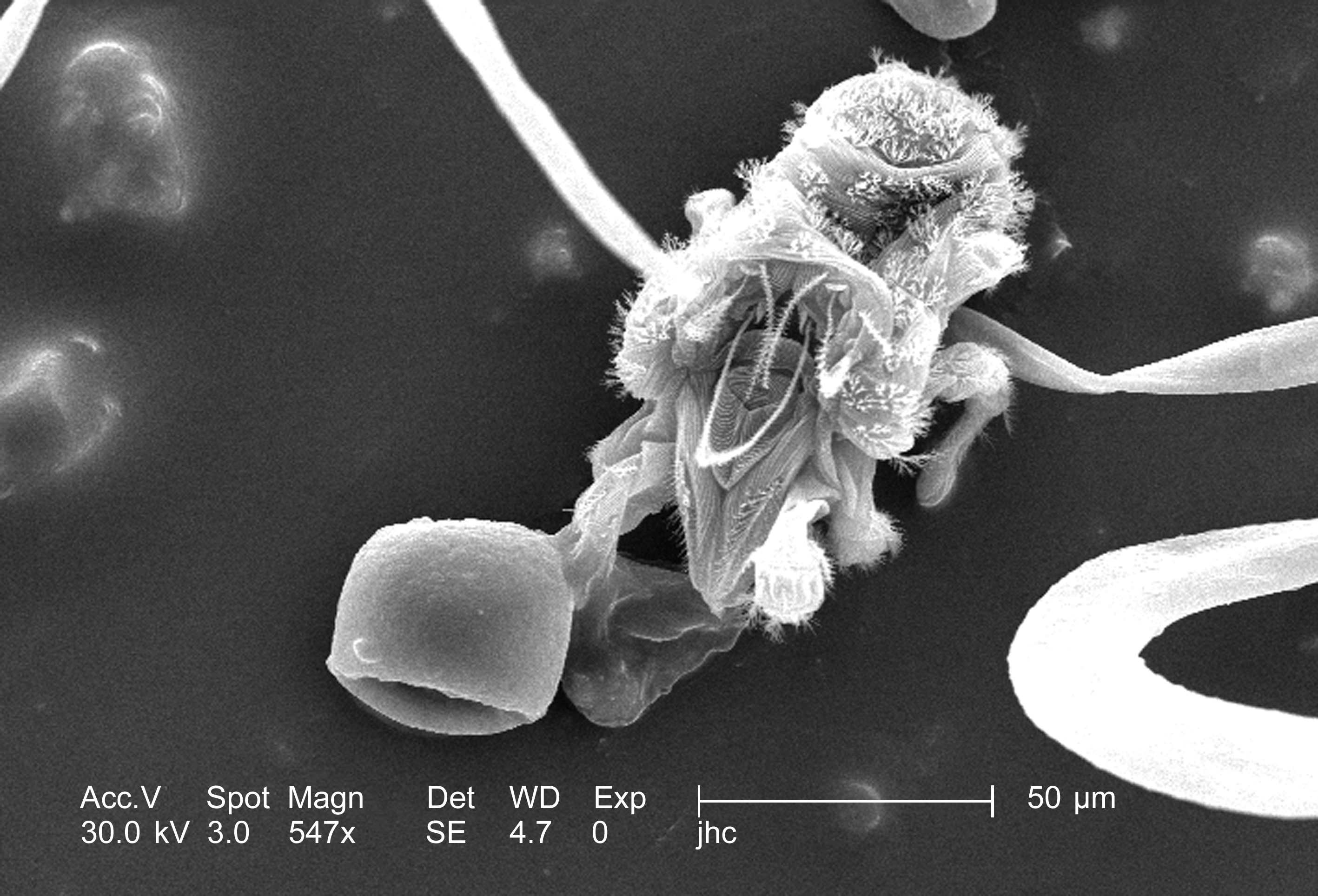 Nanorchestes Mite Magnified 547X, this scanning electron microscopic (SEM) image revealed the presence of numbers of mites from the genus, Nanorchestes sp., which were highly festooned with an adornment of chitinous, exoskeletal outcroppings. To the unaided eye, these arthropods would go unnoticed, but under magnified scrutiny, the details of their incredibly beautiful, ultrastructural morphology were revealed. Members of the genus, Nanorchestes sp., are free-living, fungivorous, soil and leaf-litter/moss mites.